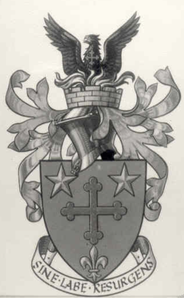 William Scully coat of Arms